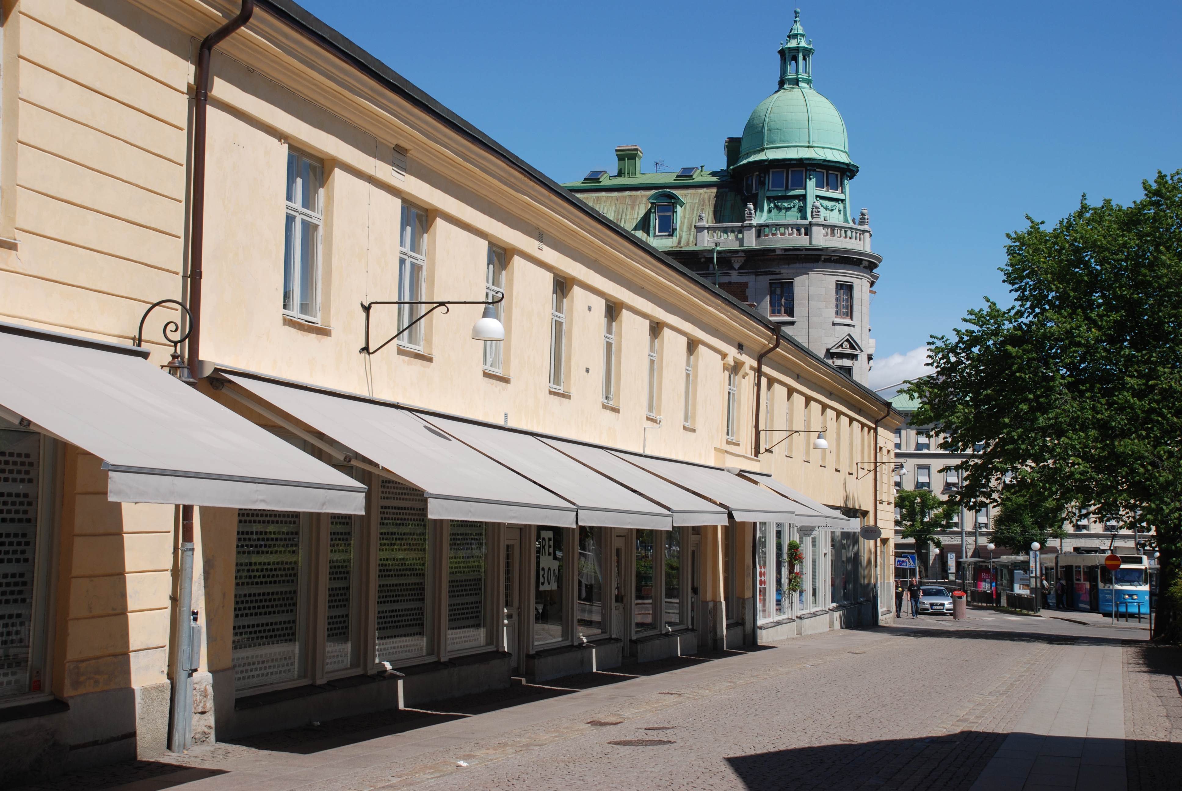 Södra Larmgatan 2 in Göteborg.